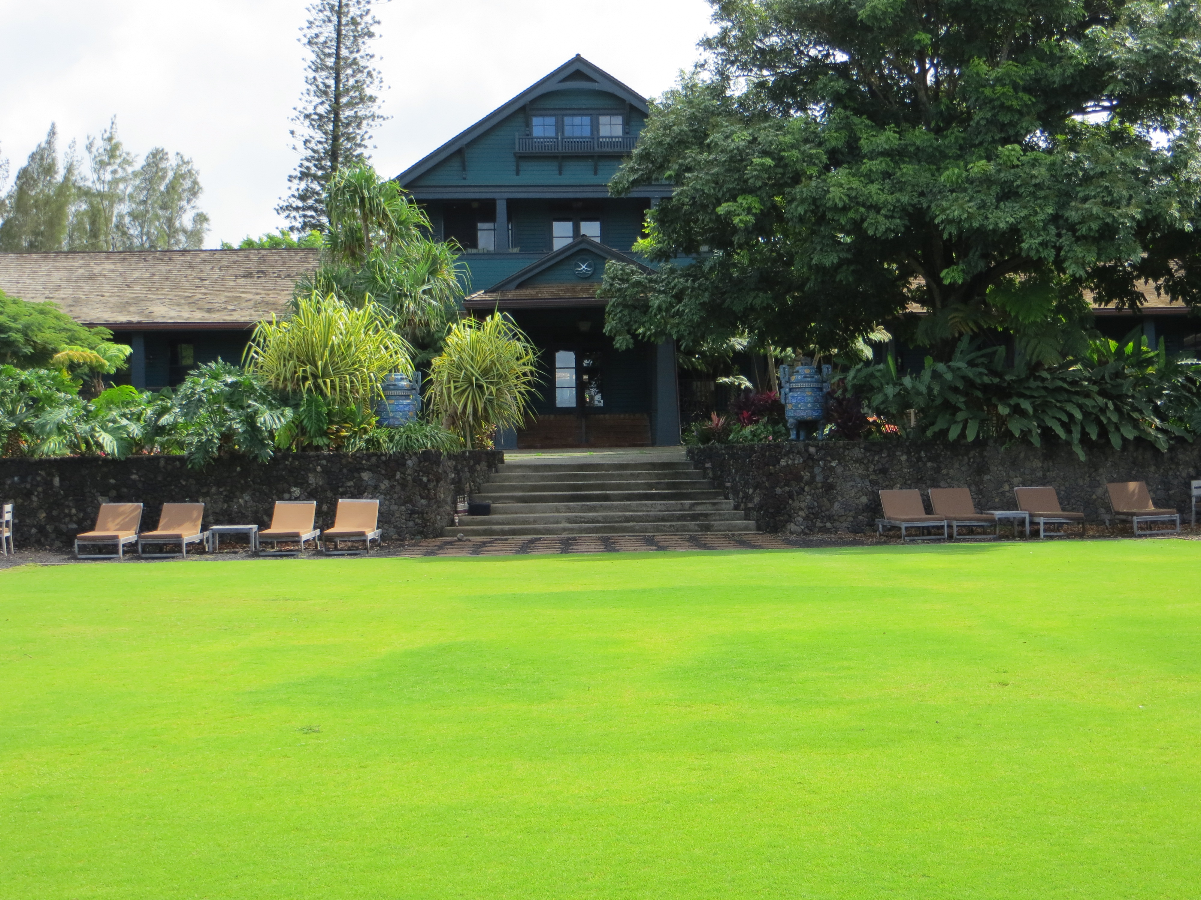 Fred Baldwin Memorial Home center lawn, 1813 Baldwin Ave., Makawao, Maui, Hawaii